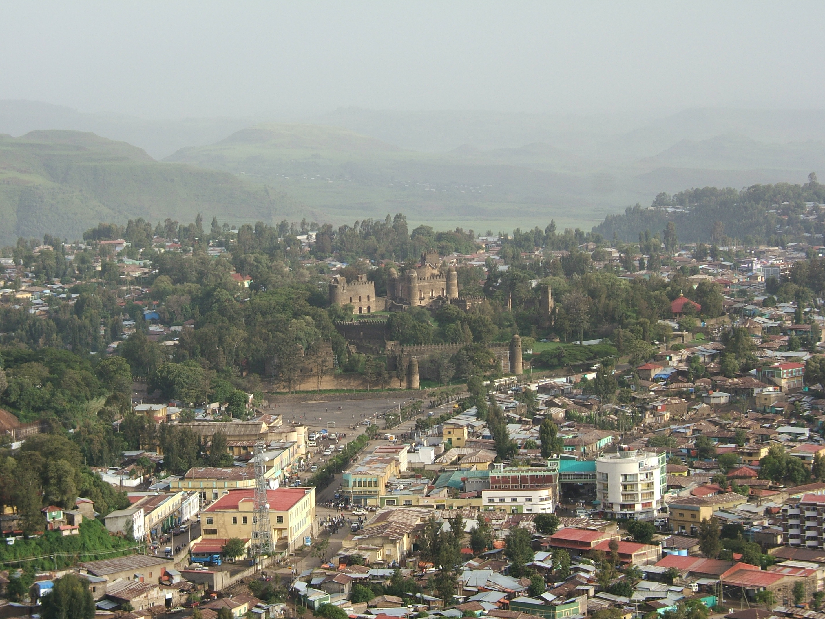 Gonder from the Goha hotel